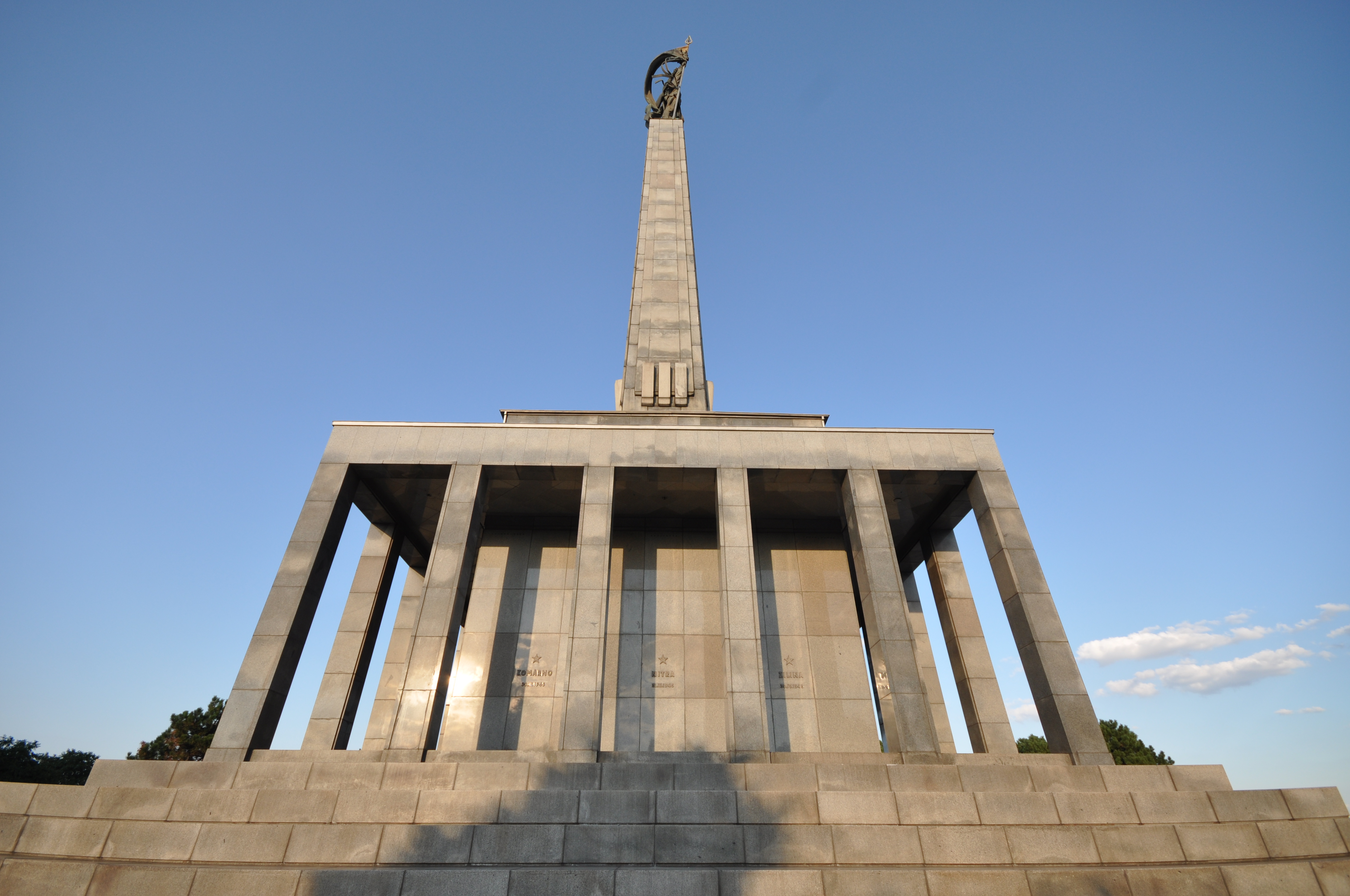 Slavín is a memorial monument and military cemetery in Bratislava, the capital of Slovakia. It is the burial ground of thousands of Soviet Army soldiers who fell during World War II while liberating the city in April 1945 from the occupying German Wehrmacht units and the remaining Slovak troops who supported the clero-fascist Tiso government. It is situated on a hill amidst a rich villa quarter of the capital and embassy residences close to the centre of Bratislava. It was constructed between 1957 and 1960 on the site of a field cemetery, and opened on April 3, 1960 on the occasion of the 15th anniversary of the city's liberation. The monument was constructed similar in kind to the Palace of Culture and Science in Stalinist architectural style. In 1961 it was declared a National Cultural Monument. Its designer was Ján Svetlík